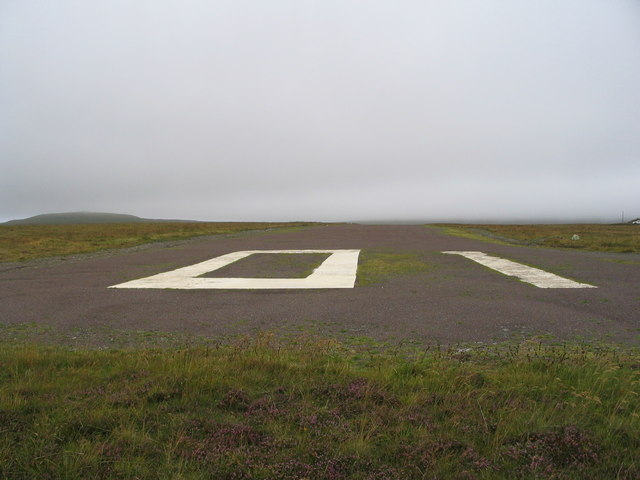 South end of Fetlar airstrip The hill of Stackaberg is visible in the distance.